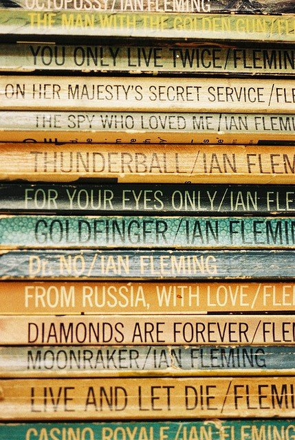 Spines of Ian Fleming's James Bond novels - Pan paperback editions